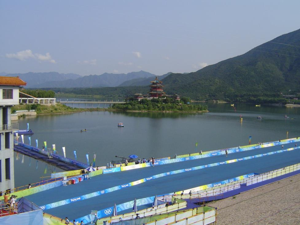 The 2008 Summer Olympics Triathlon Venue at the Ming Dynasty Tombs Reservoir. Located in the Changping District of northern Beijing.